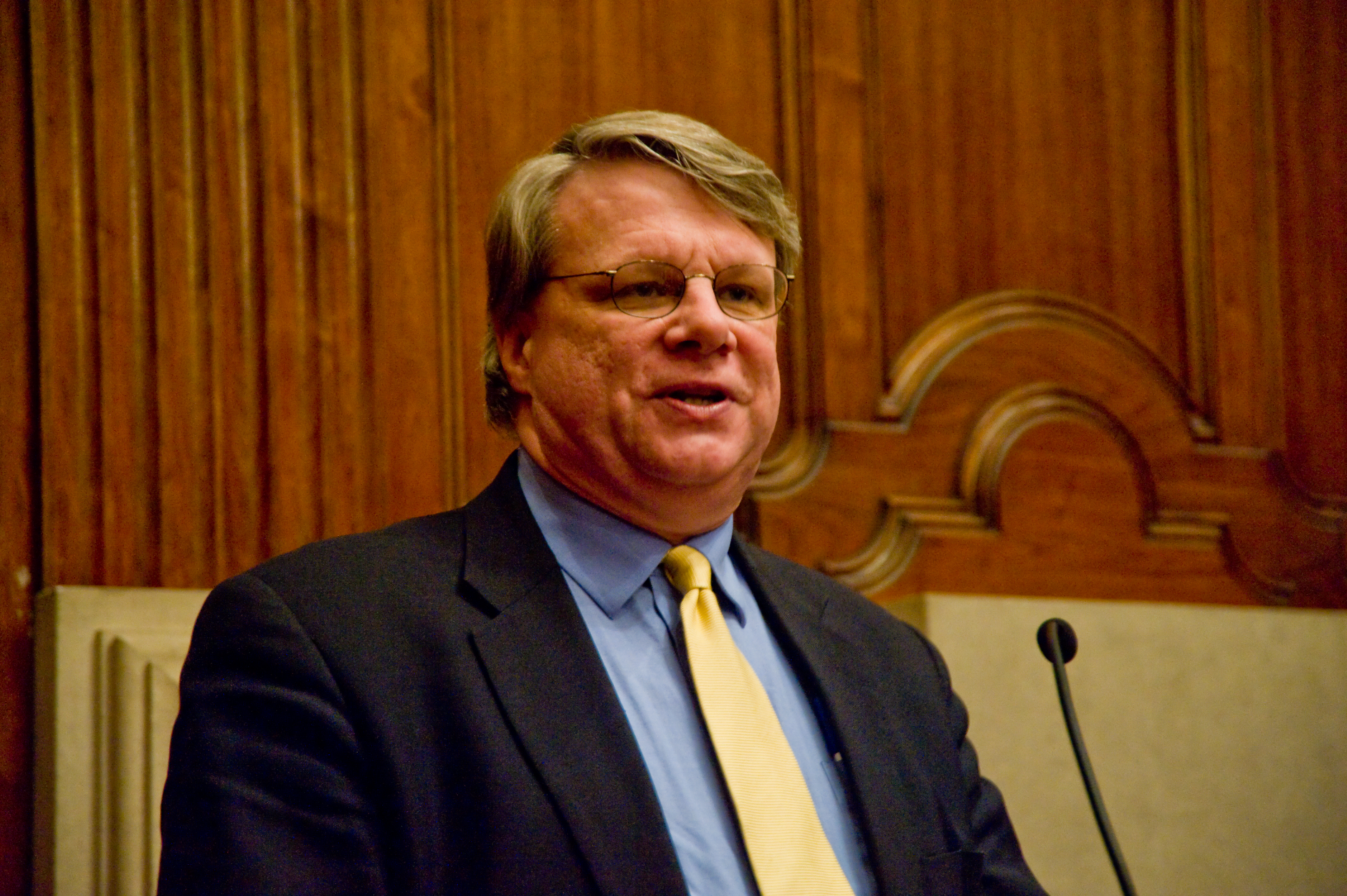 Mark Brewer at the University of Michigan for remarks during the Statewide Political Blogging Convention.